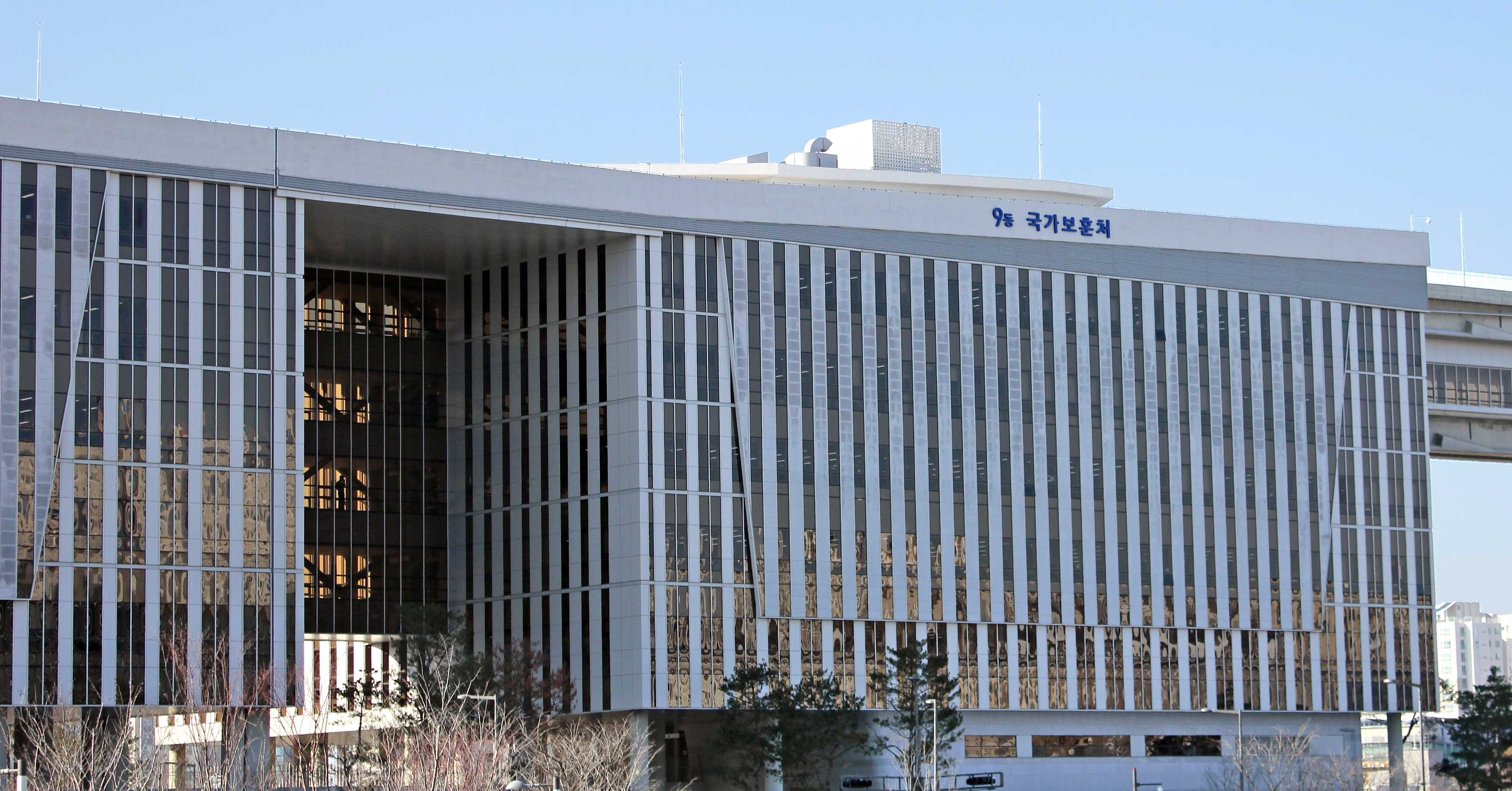 Ministry of Patriots and Veterans Affairs @Government Complex Sejong #9